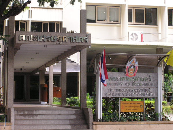 Faculty of Economics, Chulalongkorn University, Bangkok, Thailand